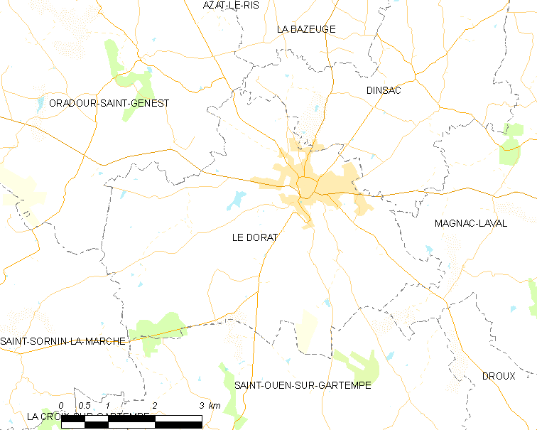 Map of French municipality Le Dorat